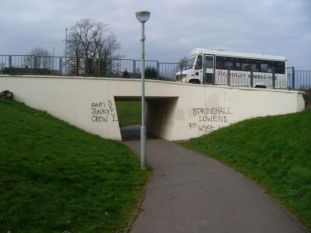 Pedestrian underpass at Langlea Road Covered with graffiti.